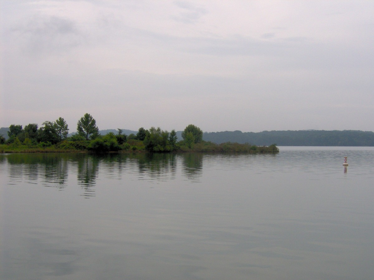 The site of the Cherokee town of Tomotley, now under Tellico Lake in Monroe County, Tennessee, located in the southeastern United States. Tomotley was located just beyond the strip of land spanning the middle of the picture. The view is looking northeast from the Toqua Boat Ramp.